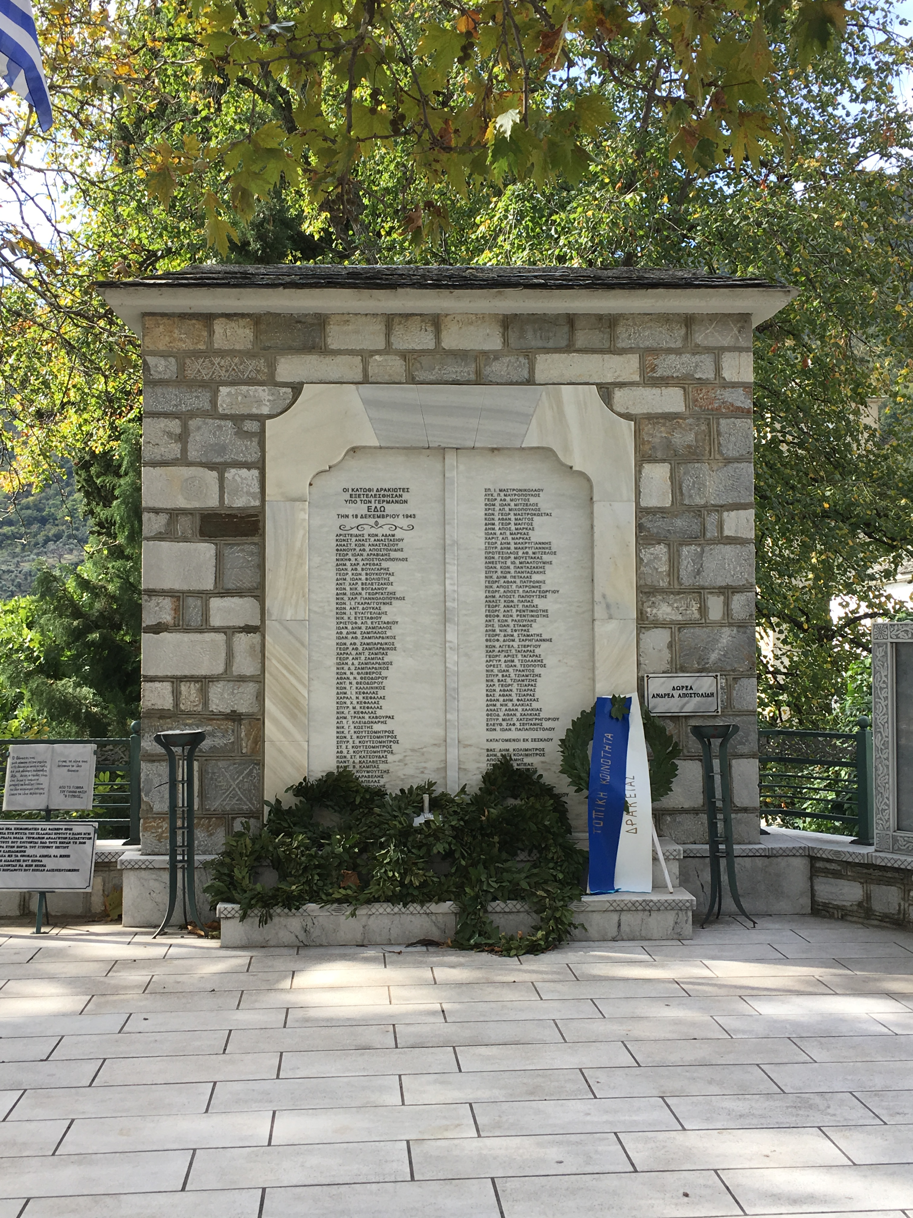 Drakia Memorial